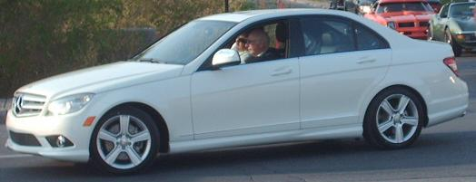 2008 Mercedes-Benz C-Class photographed in Montreal, Quebec, Canada.